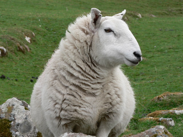 Gimme that sandwich! Lunchtime visitor near Sandwood Loch